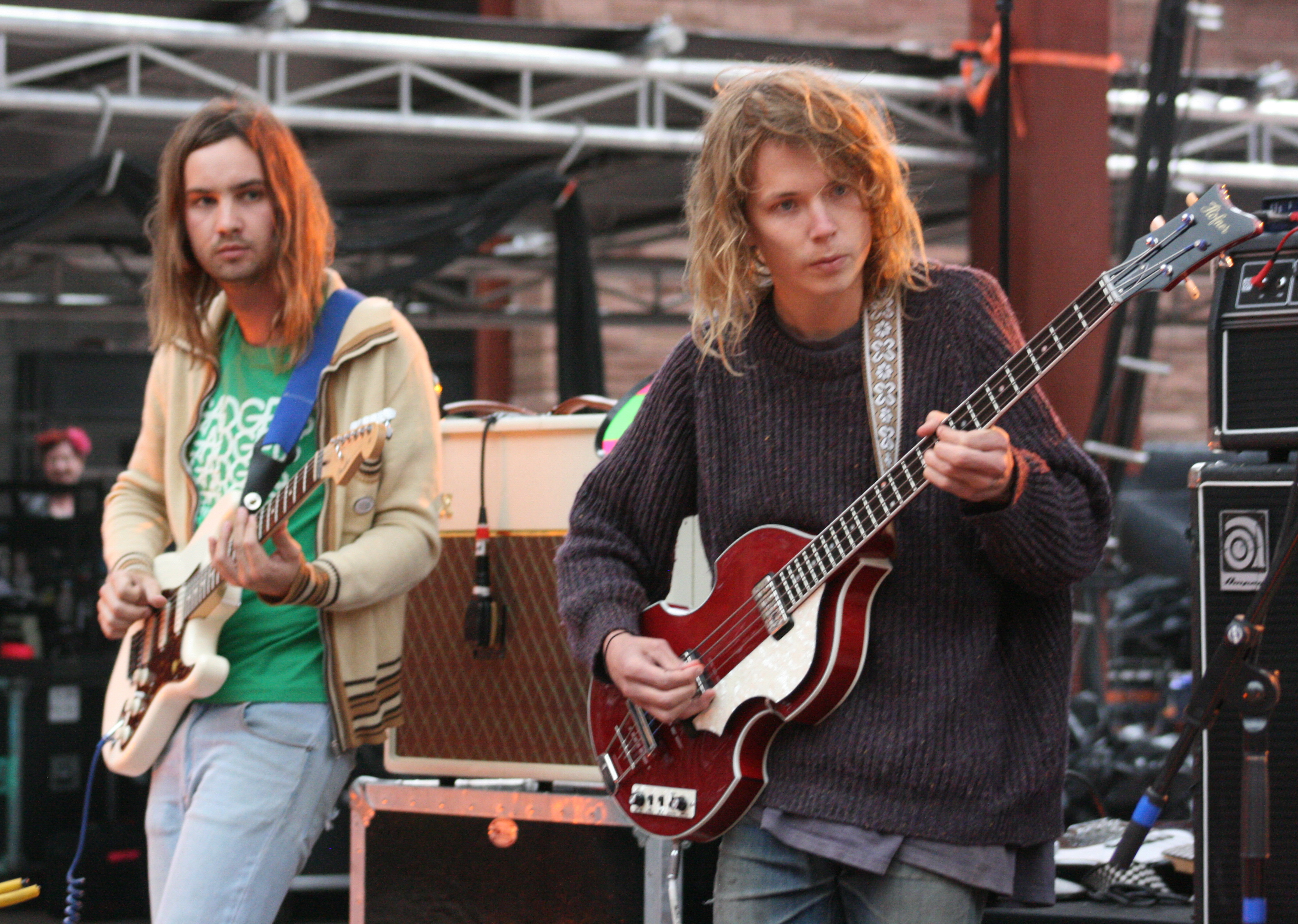 Tame Impala performing at Red Rocks Amphitheatre in Colorado on June 11, 2010